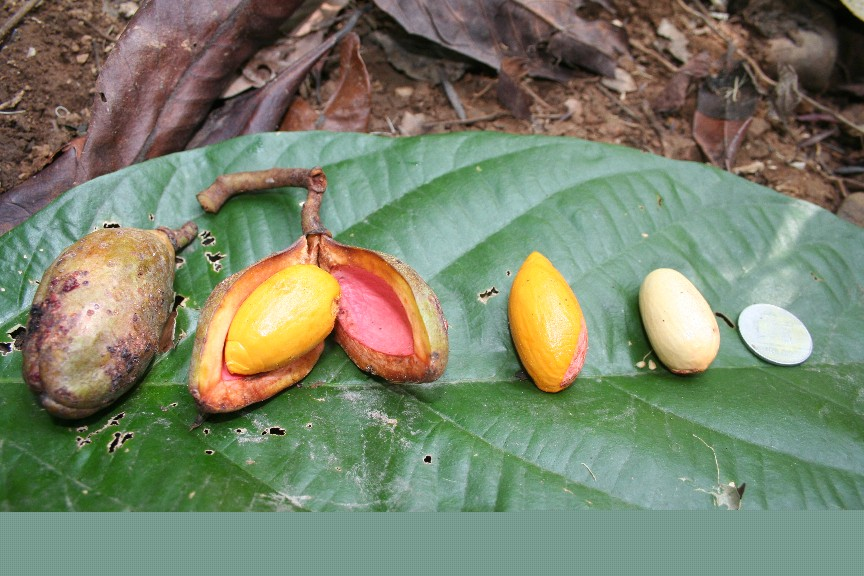 Fruits of Horsfieldia kingii taken at Pakke Tiger Reserve in Arunachal Pradesh by Nandini Velho